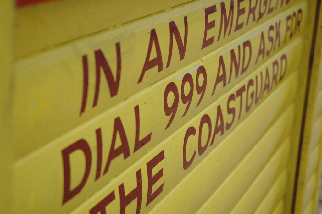 A sign on a beach in Whitstable, England, instructing readers to dial 999 in the event of an emergency Dial 999 ( It's a bit like 911 ) Camera: Nikon D70s License on Flickr (2011-01-09): CC-BY-2.0 Flickr tags: 999, dial, yello, wood, coastguard